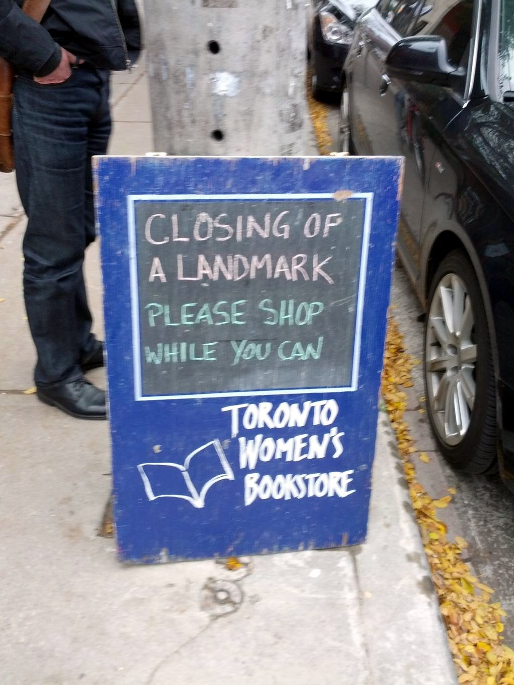 Closing of a Landmark sign, Women's Bookstore, Toronto, Ontario, Canada